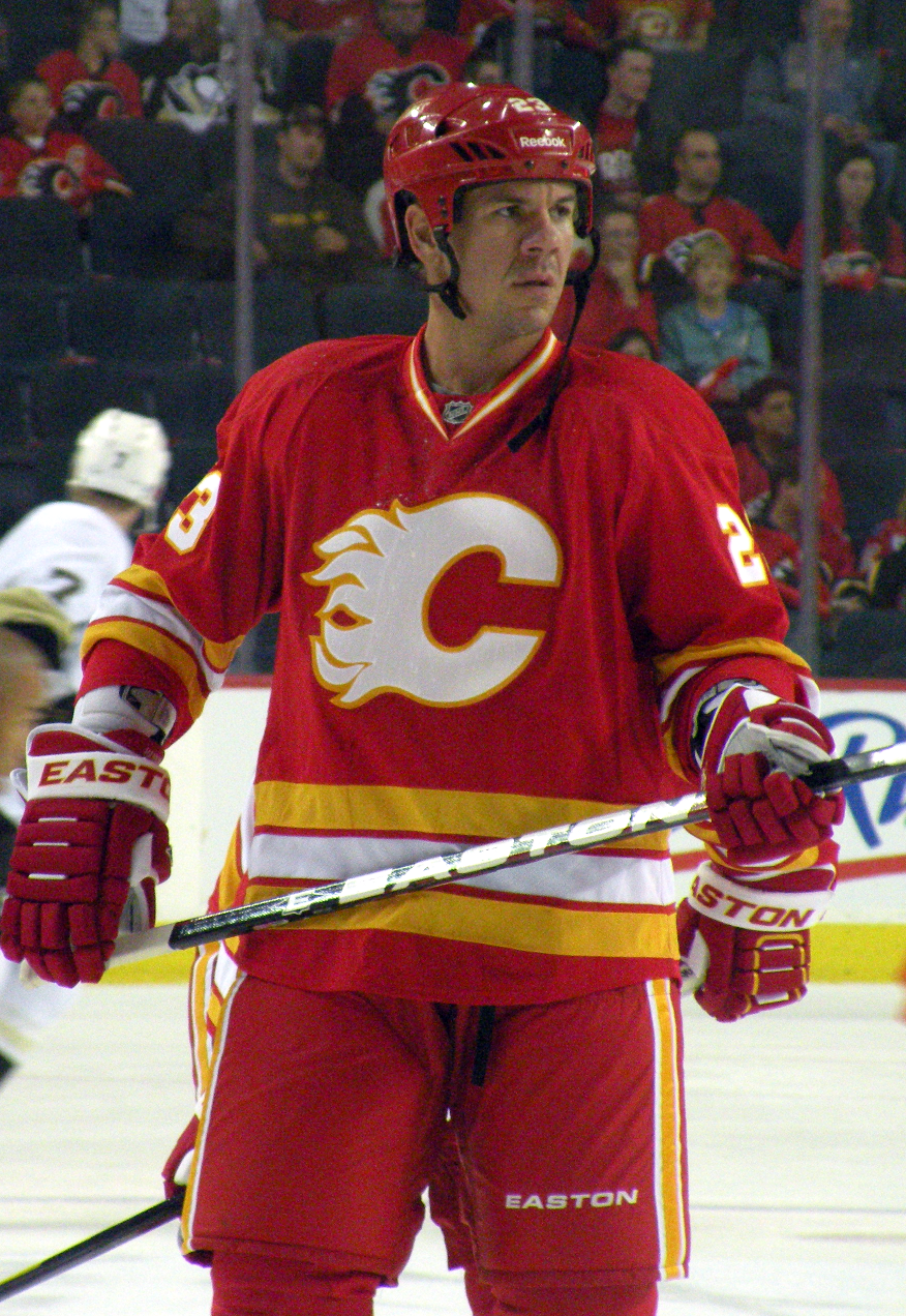 Calgary Flames defenceman Scott Hannan prior to making his debut with the team, against the Pittsburgh Penguins, at Calgary.